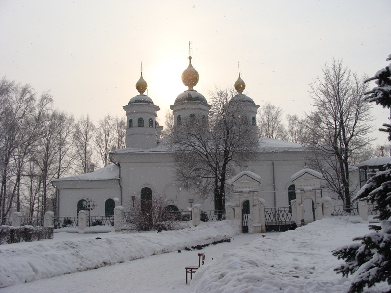 Воскресенский Собор в Череповце